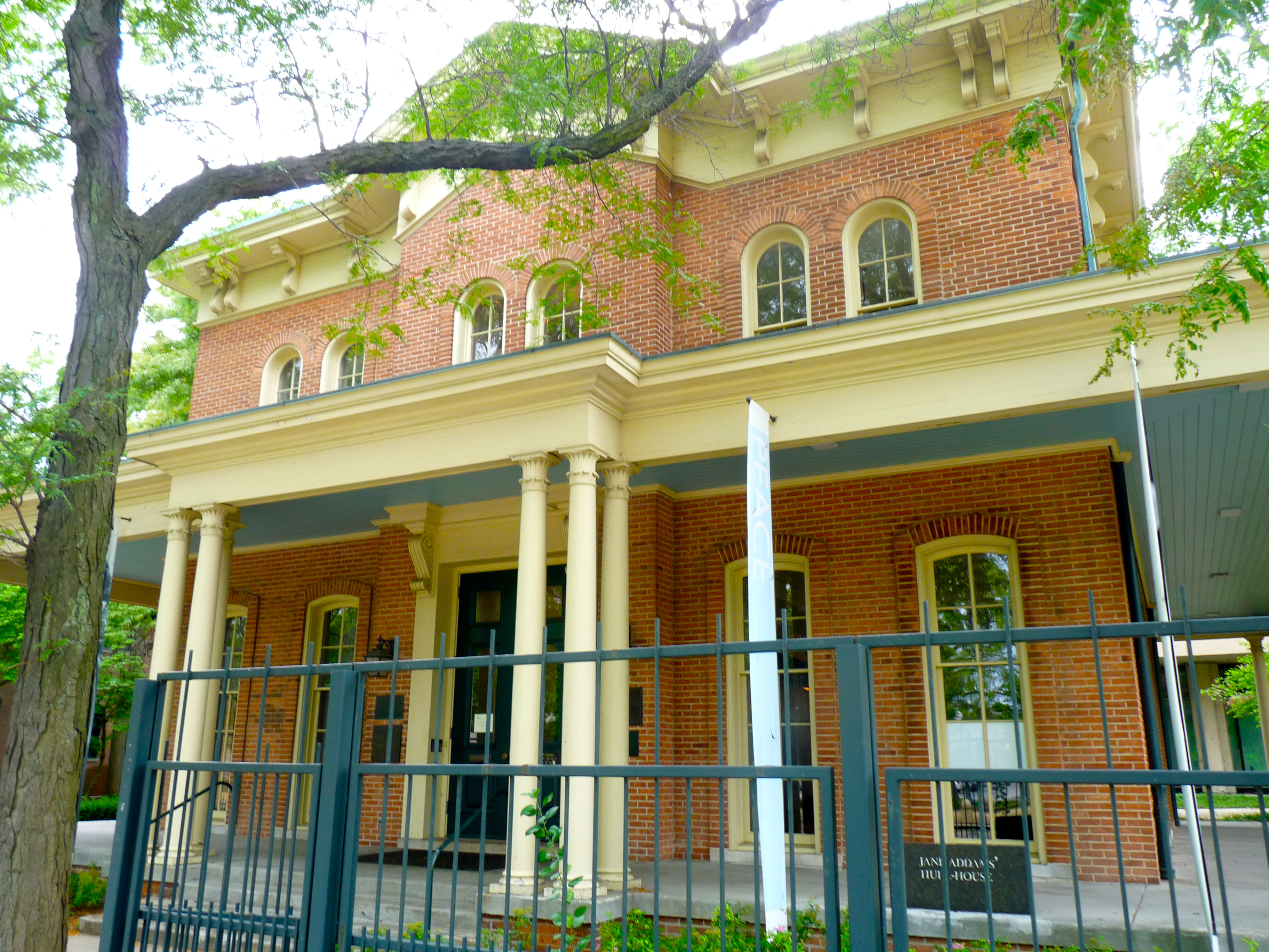 Registered RNHL